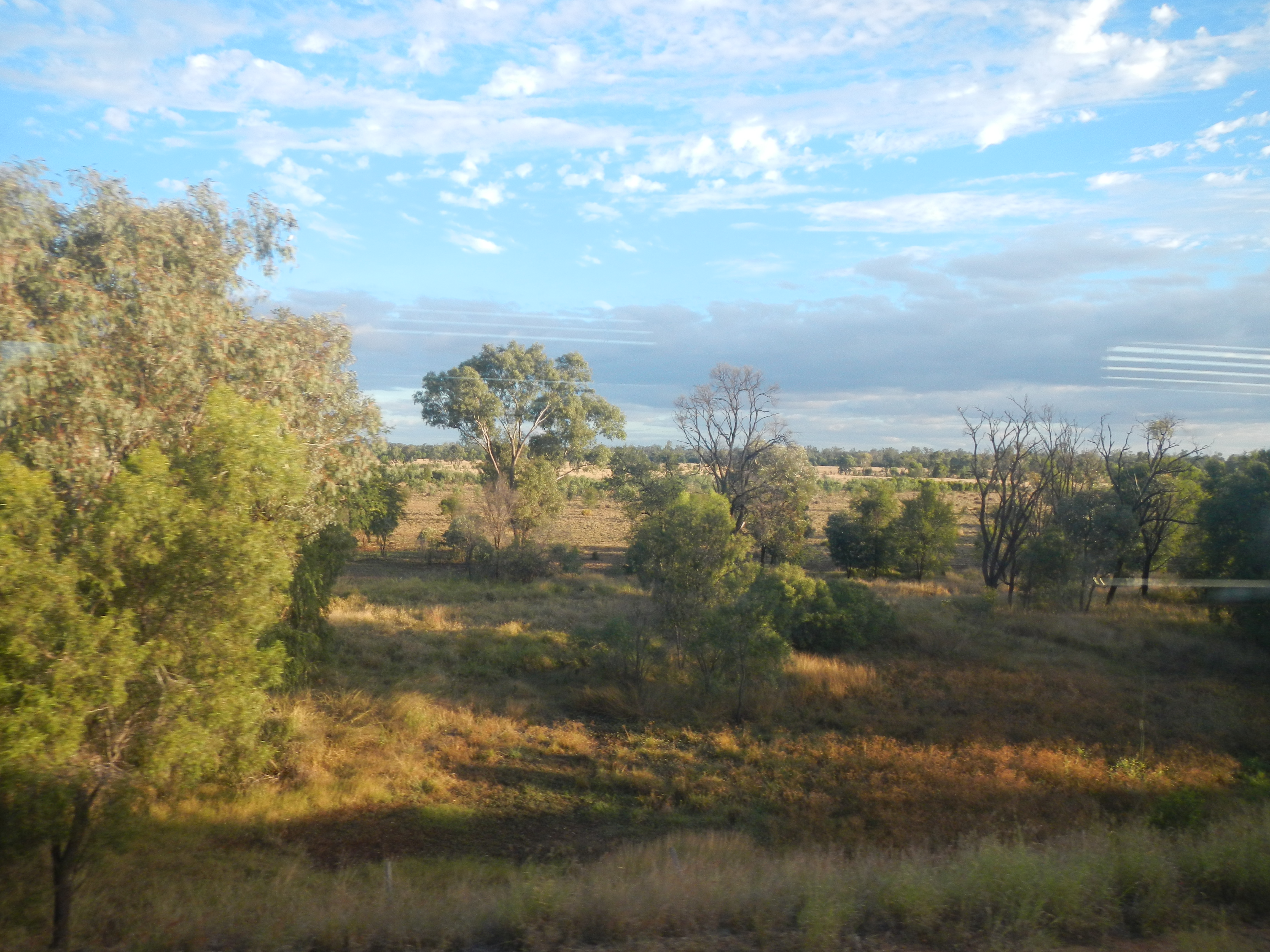 Grazing Land Near Comet